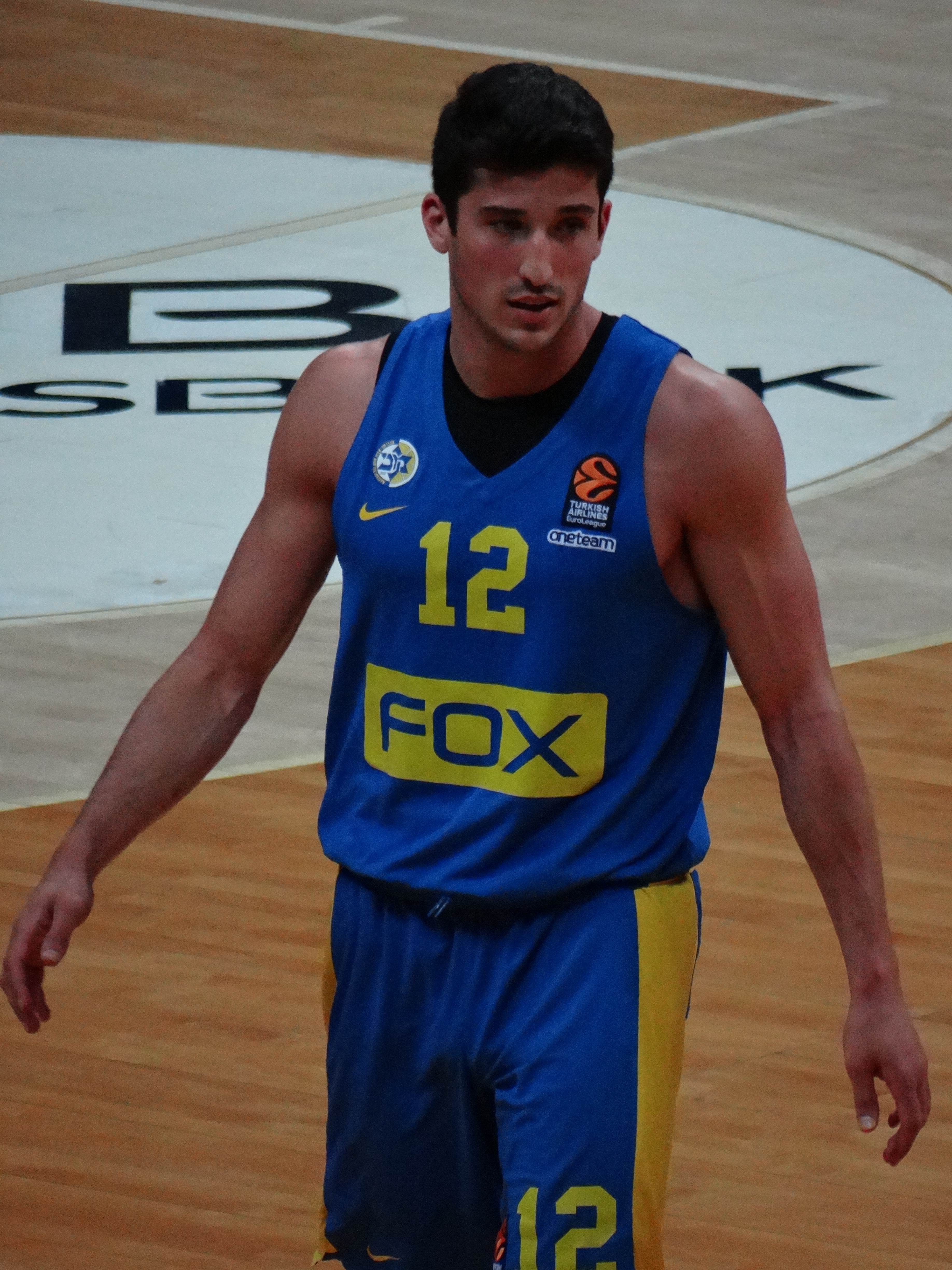 John DiBartolomeo 12 Maccabi Tel Aviv B.C. EuroLeague 20180320